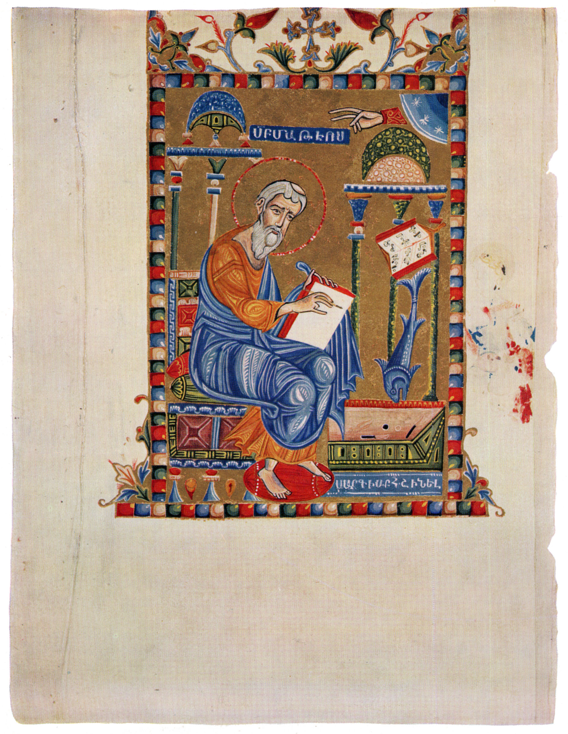 Gospel of eight painters, Matthew the Evangelist by Sargis Pitzak